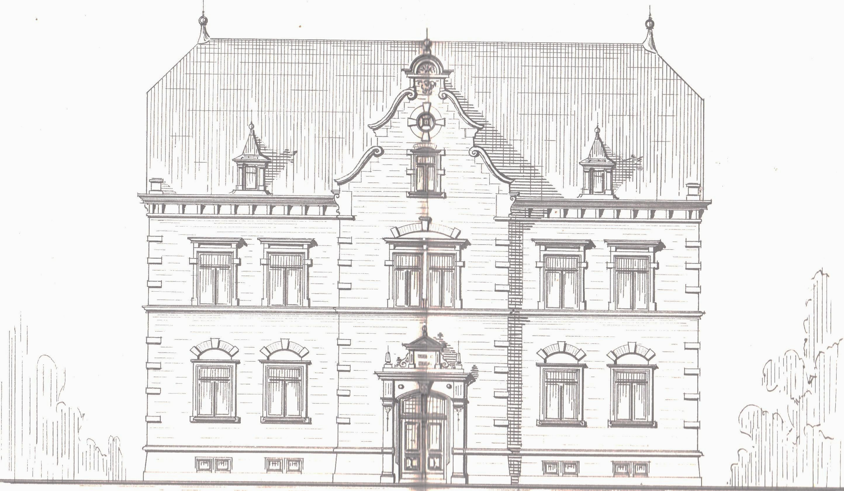 In septembre 1899 Johannes Hakenmüller styled a former farmhouse at the Goethe-Straße in the today 72461 Albstadt-Tailfingen into a villa with newclassicism-look, styled by the workman Carl Heinz form Balingen, both towns in South-Western-Germany, to begin his astonishing rise to in the 1930th leading textile-factories in Germany.